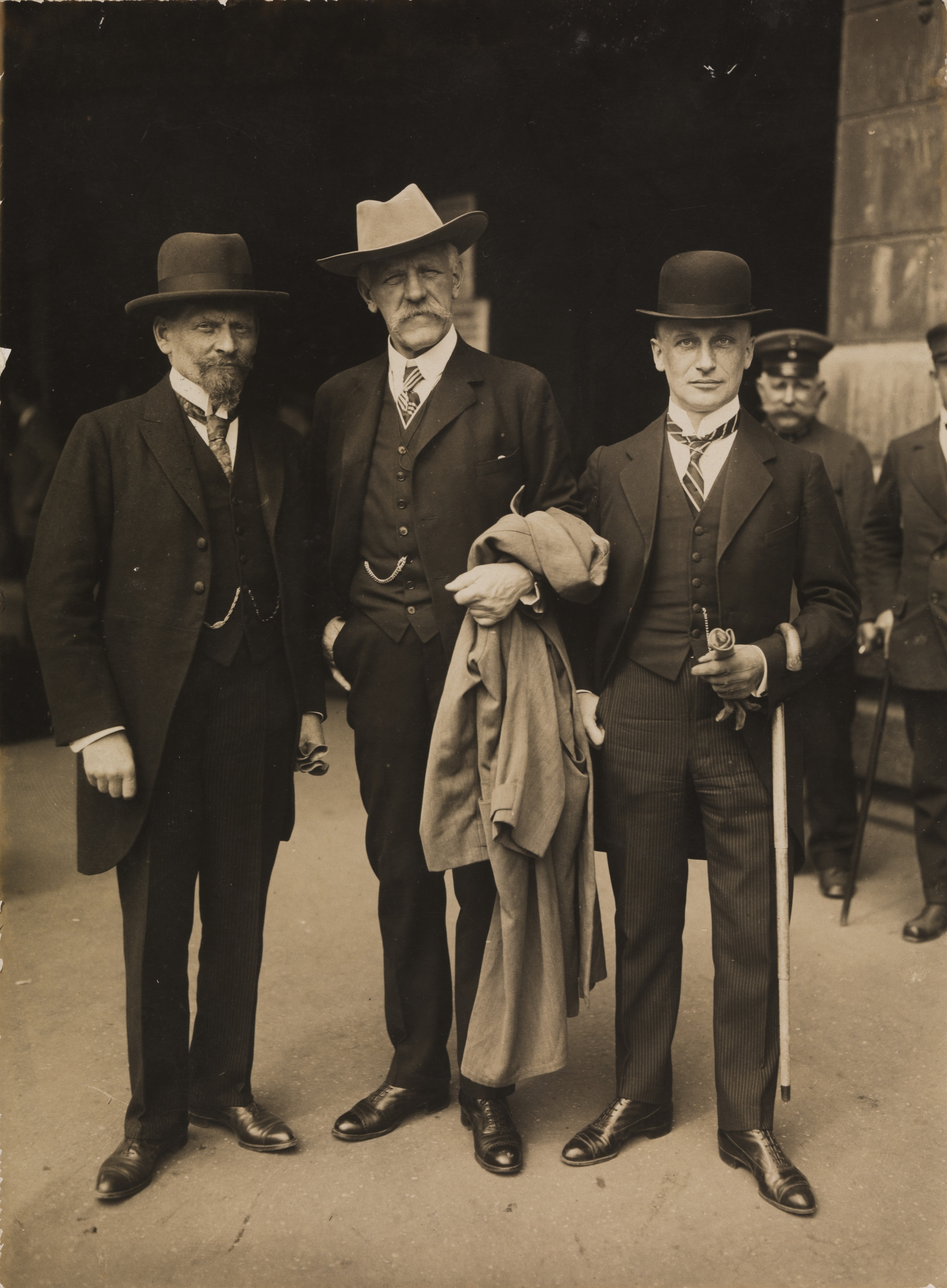 Fridtjof Nansen during negotiations with Aeroarctic (The International Study Association for the Exploration of the Arctic Regions by Airship). From the left Professor Ernst Kohlschütter, Fridtjof Nansen and Captain Walther Bruns.